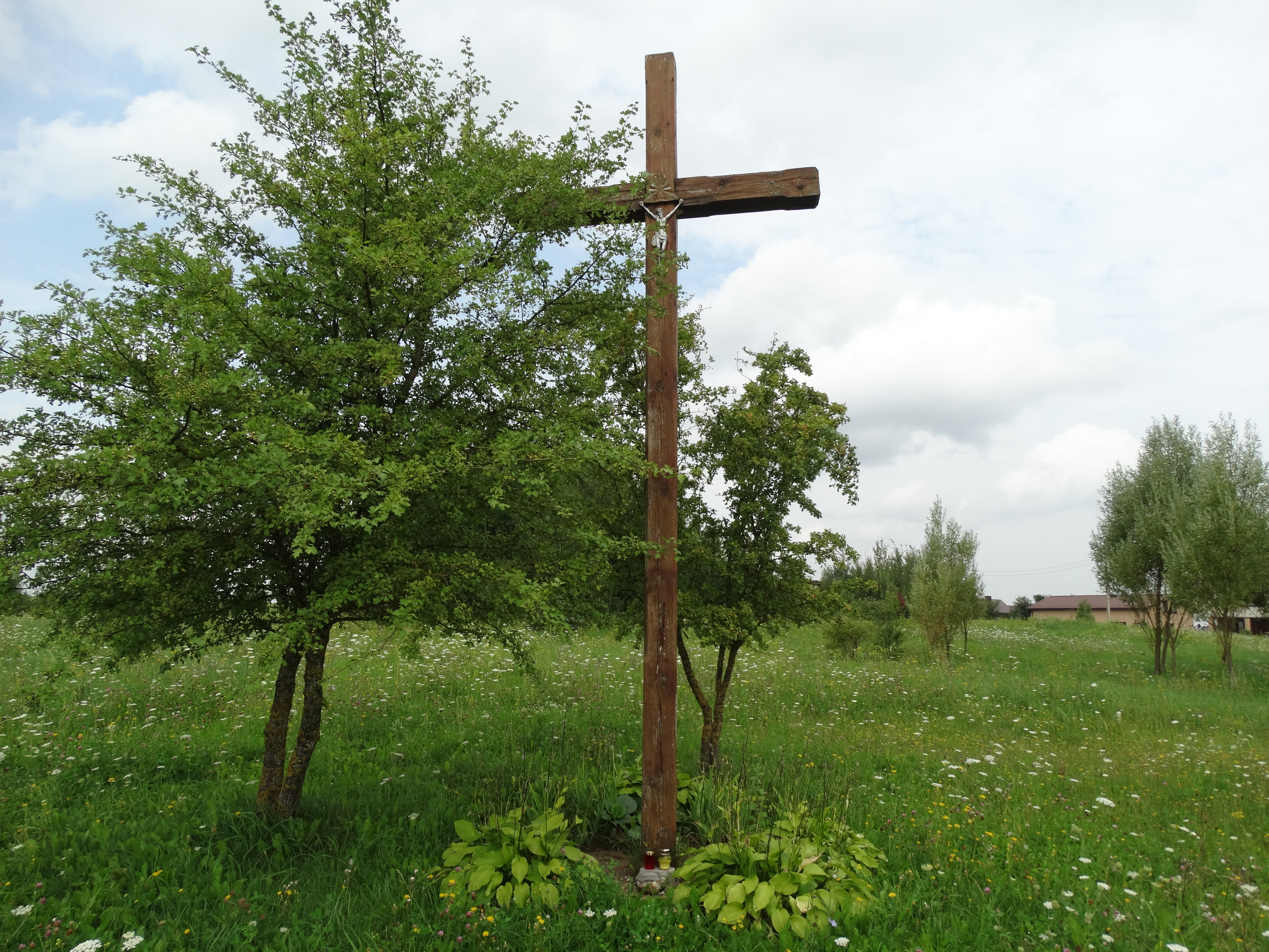 Cross on the spot of the future St. John the Apostle church, Jonava, Lithuania